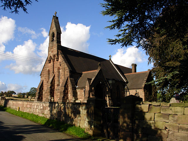 St Giles, Croxden. St Giles was built about 1884/5 to replace an earlier chapel by the abbey.